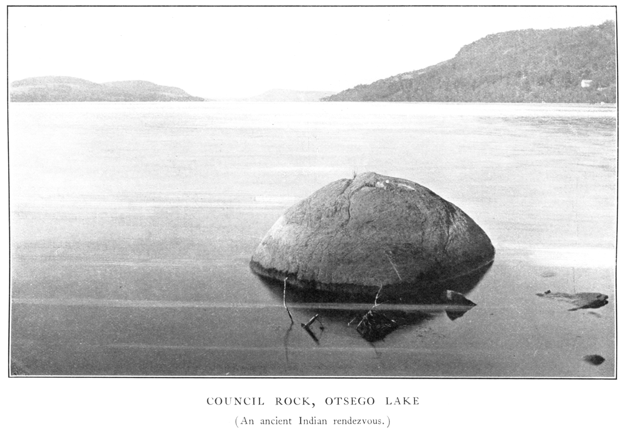 Council Rock, Otsego Lake (An ancient Indian rendezvous) from wikisourceThe Old New York Frontier by Francis W. Halsey.